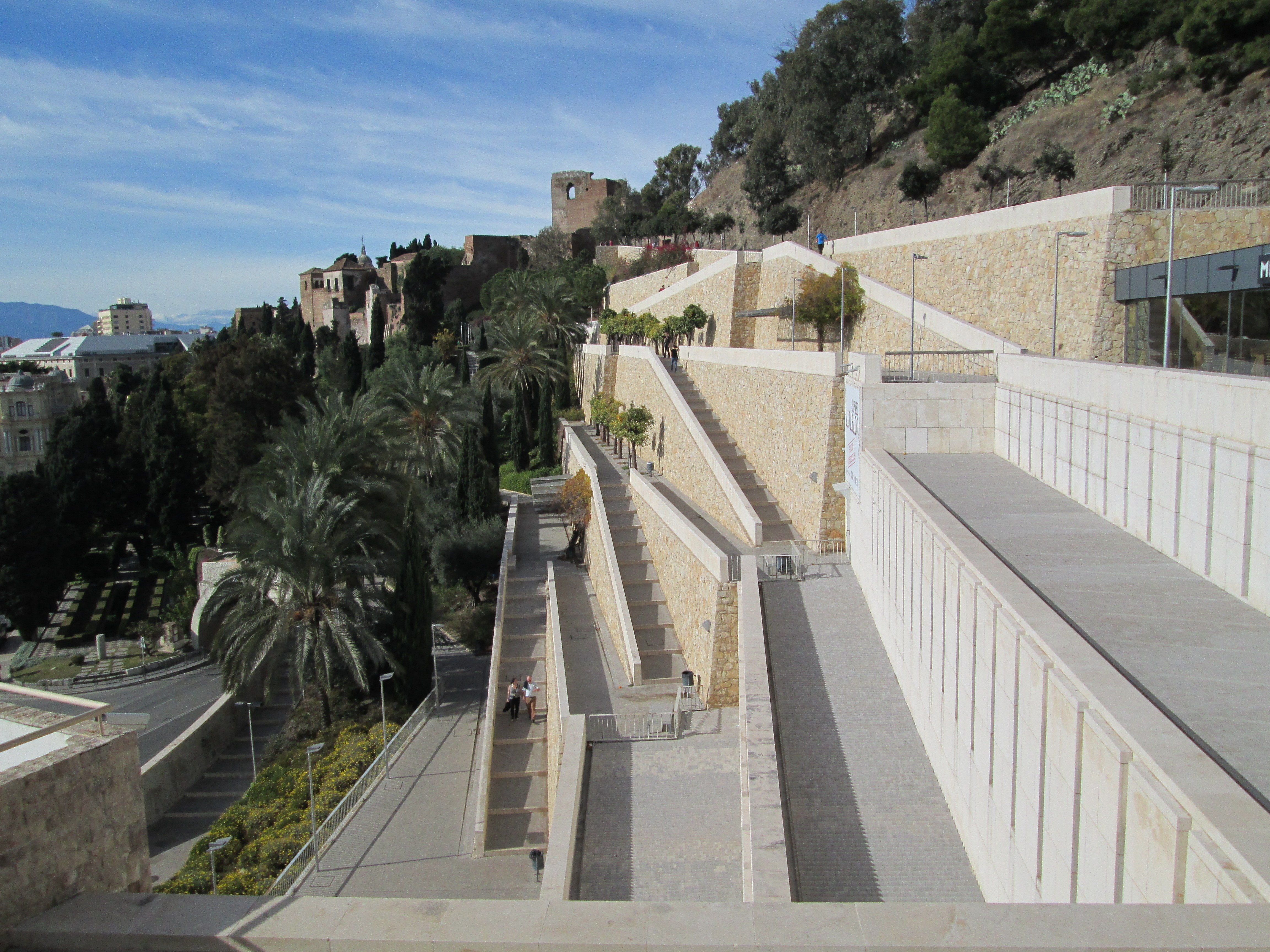 Escalinata de la Coracha